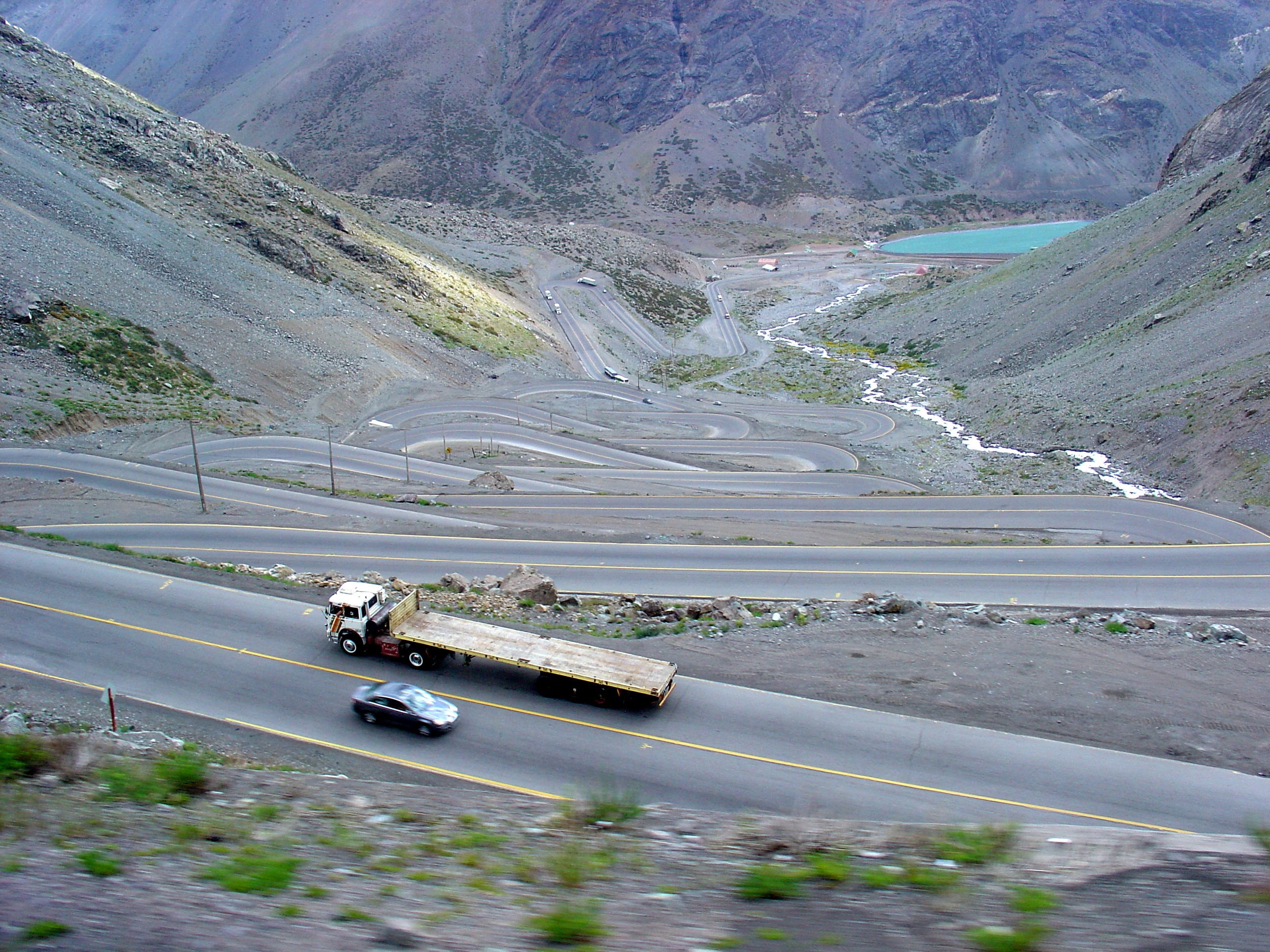 Please, have this description accessible to all by translating it in different languages.